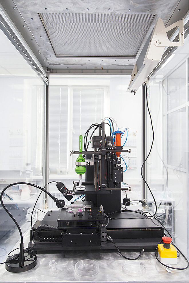 Three-dimensional bioprinter developed by the Russian company 3D Bioprinting Solutions, capable of printing live organs.